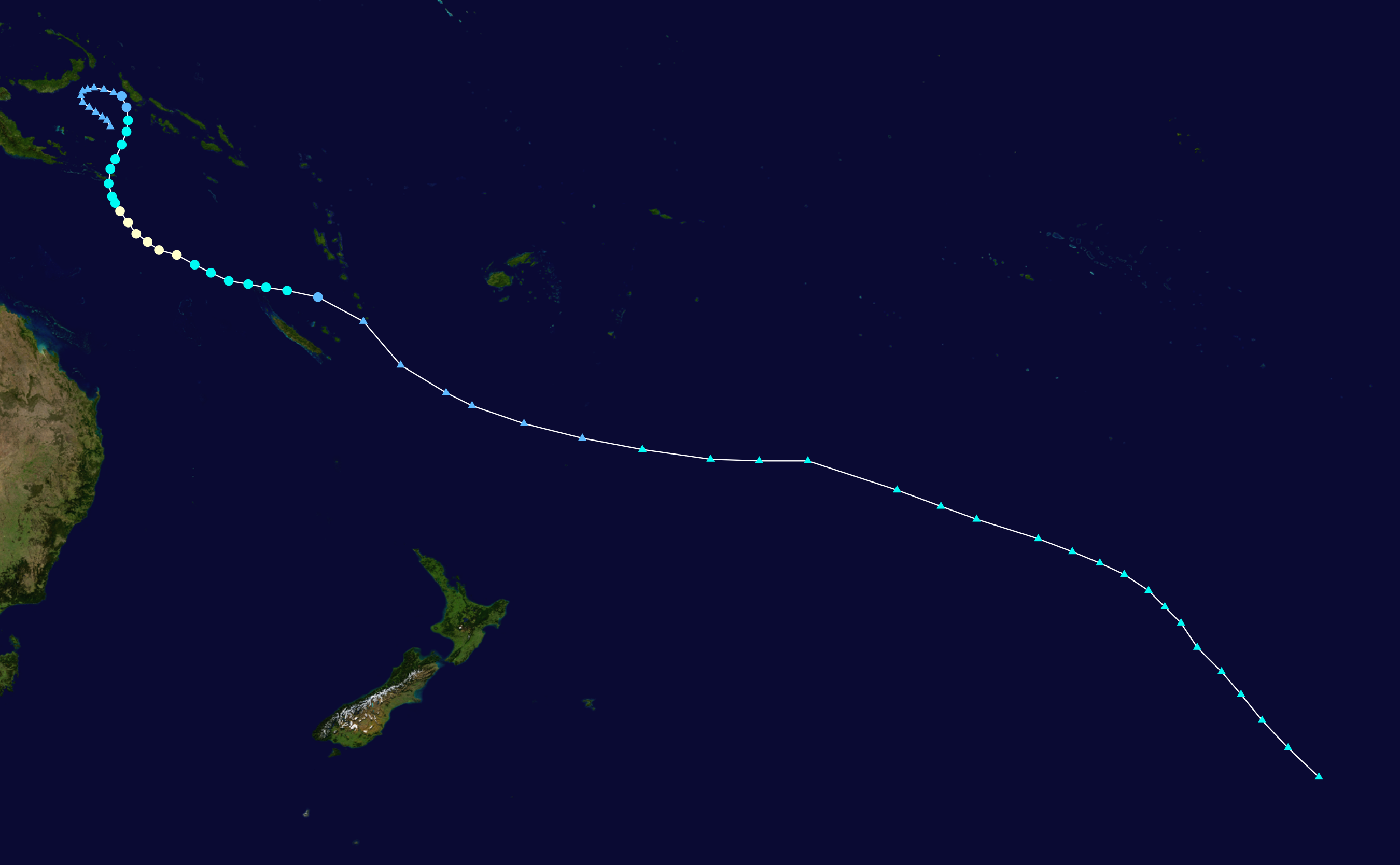 Cyclone Lisa (1991) track. Uses the color scheme from the Saffir-Simpson Hurricane Scale. The points show the location of each storm at six-hour intervals. The colour represents the storm's maximum sustained wind speeds as classified in the Saffir-Simpson Hurricane Scale (see below), and the shape of the data points represent the nature of the storm. Saffir–Simpson scale Tropical depression≤38 mph≤62 km/h Category 3111–129 mph178–208 km/h Tropical storm39–73 mph63–118 km/h Category 4130–156 mph209–251 km/h Category 174–95 mph119–153 km/h Category 5≥157 mph≥252 km/h Category 296–110 mph154–177 km/h Unknown Storm type Tropical cyclone Subtropical cyclone Extratropical cyclone / Remnant low / Tropical disturbance